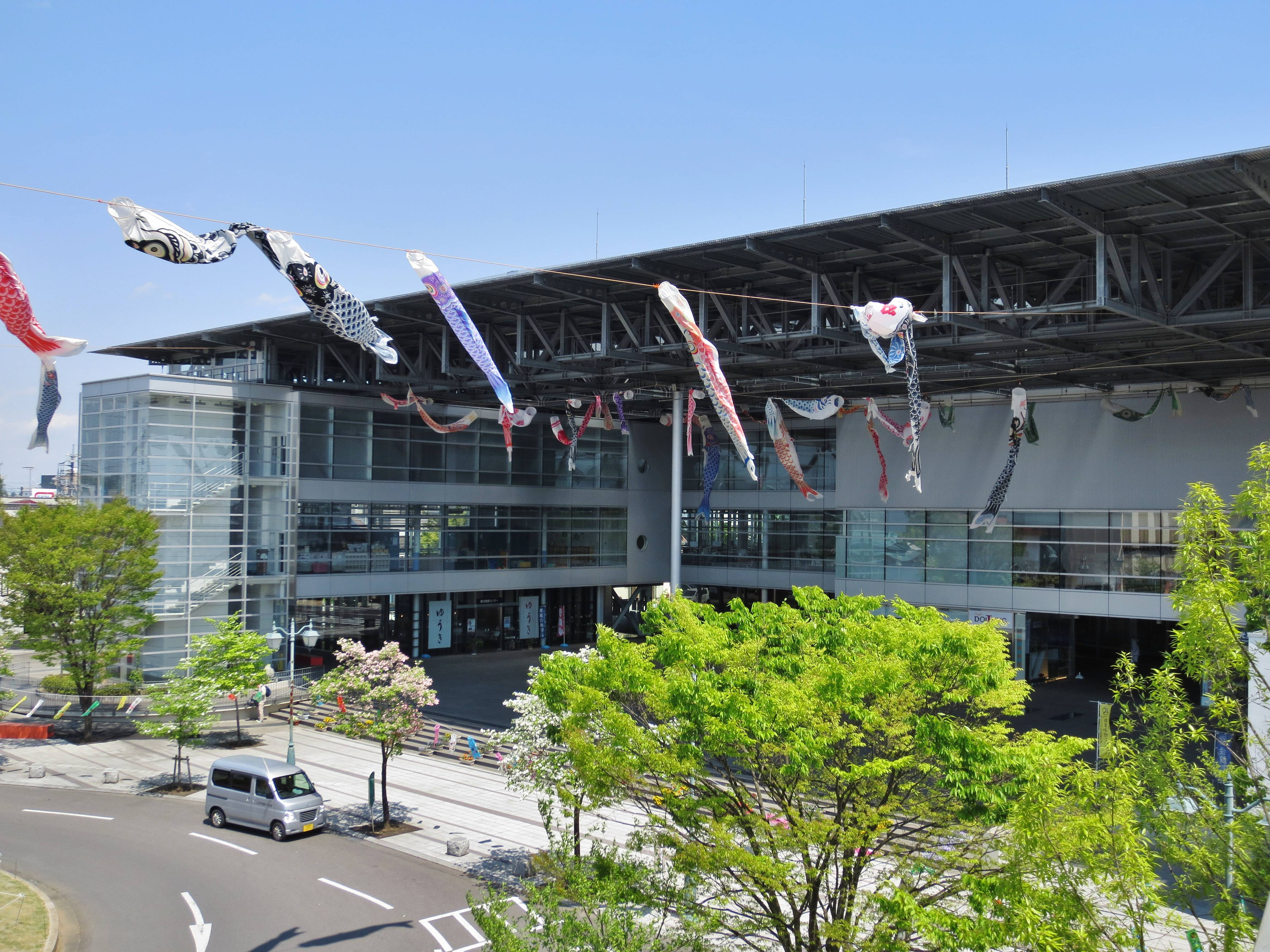 Yuki Information + Communication Center.